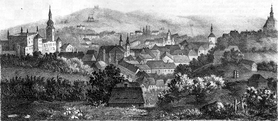 Selmec in 1863